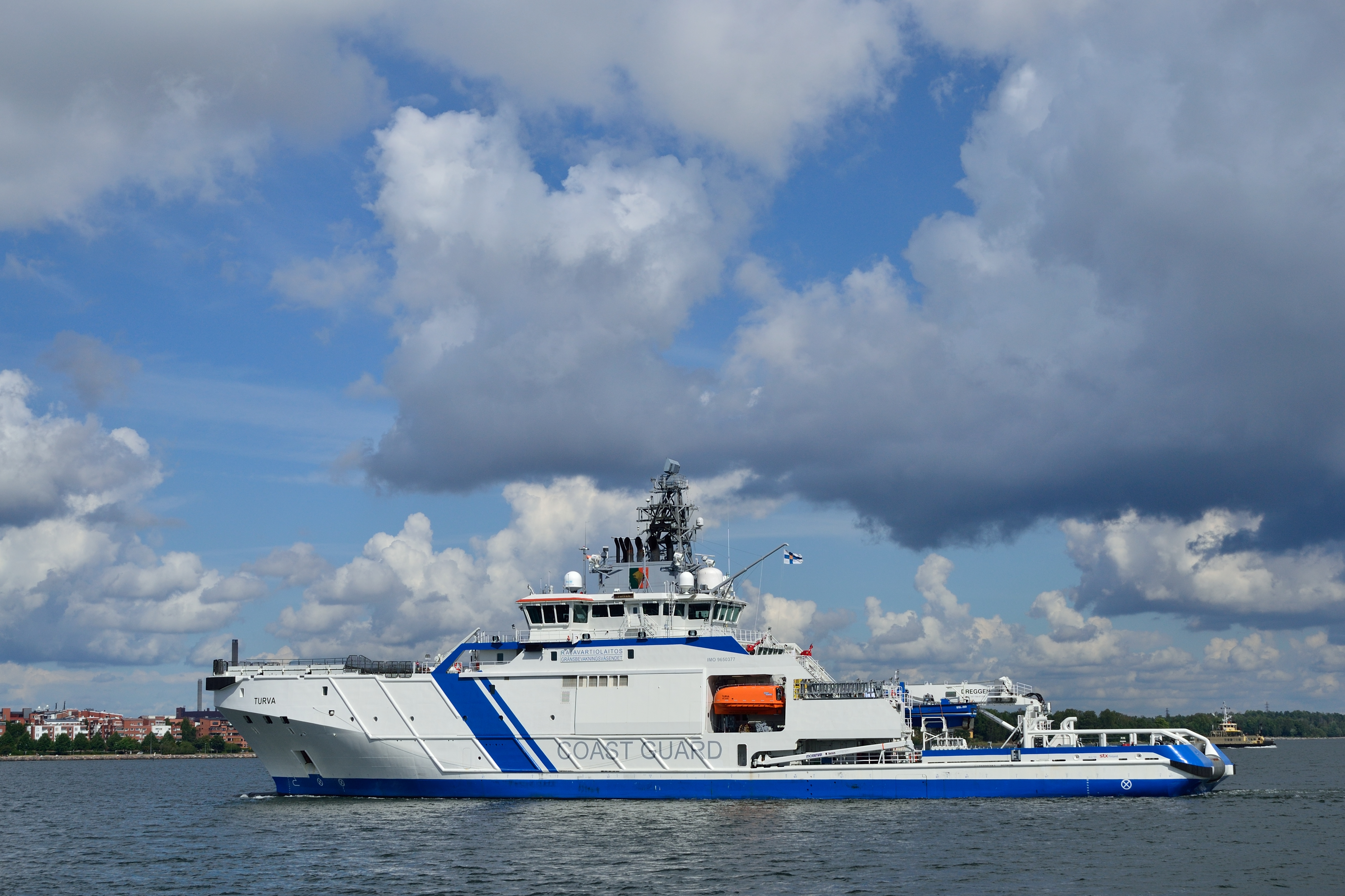 Finnish coast guard ship UVL Turva in Helsinki